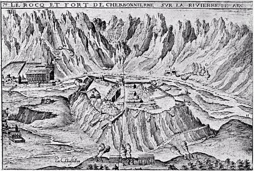 Old savoy castle reproduced by Chastillon a famous painter of castles during the 16th century